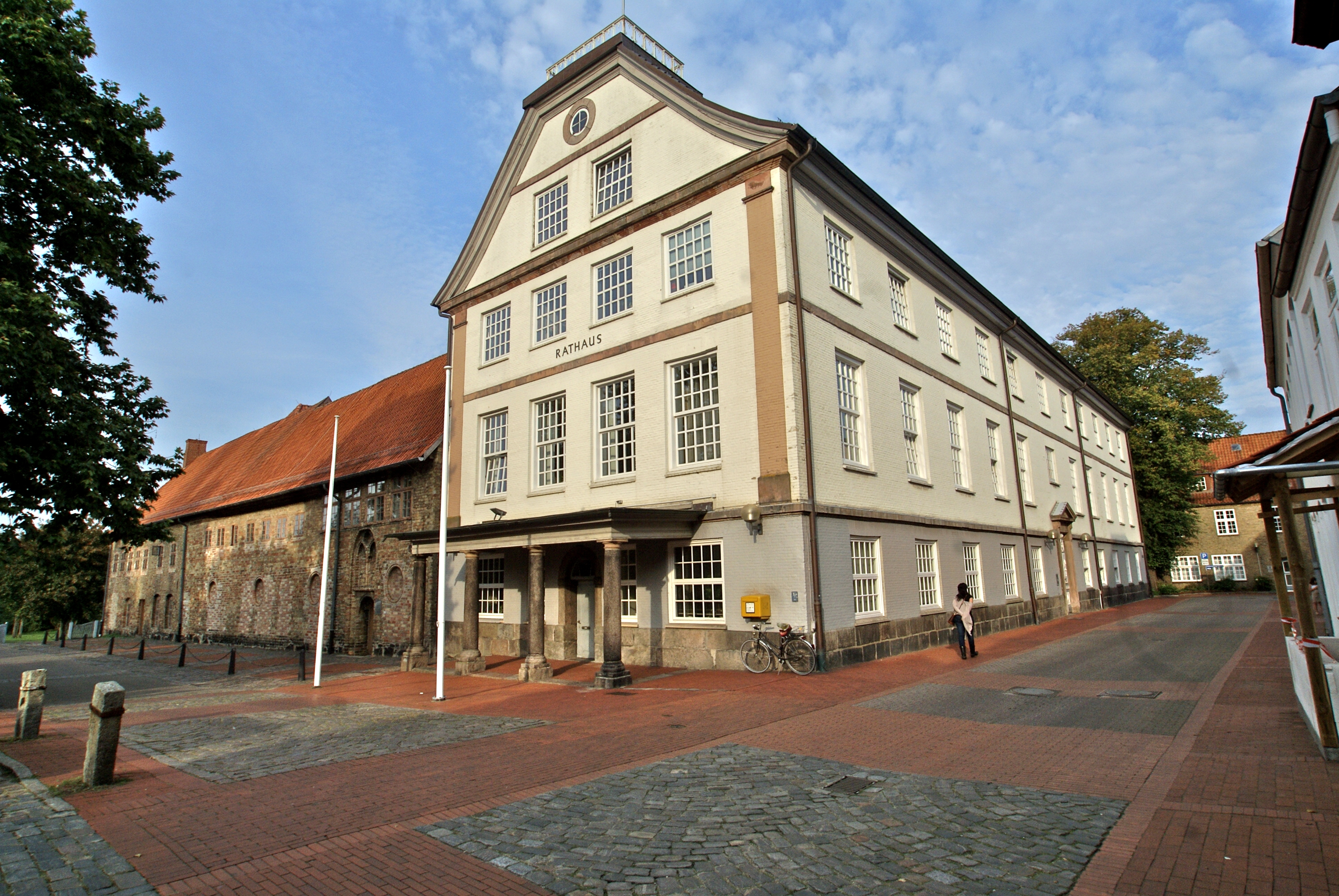 Schleswig, Germany: Town Hall 1793